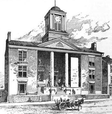 The Knox County Courthouse in Knoxville, Tennessee, United States. This was the third building used as the county's courthouse. It was completed in 1842, and was in use until the completion of the current courthouse in 1886.